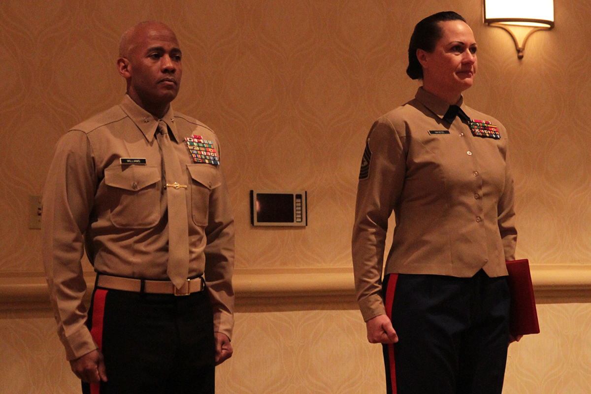 Brig. Gen. Terry V. Williams and Sgt. Maj. Angela M. Maness stand at attention before awarding Sgt. DeMonte R. Cheeley the Purple Heart medal Jan. 26, 2016, at a ceremony in Chattanooga, Tenn. Cheeley received the Purple Heart for injuries he sustained during a July 16, 2015 attack in Chattanooga at the Armed Forces Career Center where he works. An investigation conducted by the FBI and the Naval Criminal Investigative Service determined the attack had been inspired by a foreign terrorist group making Cheeley eligible for the Purple Heart. Cheeley is a Marine recruiter with Recruiting Substation Chattanooga, Recruiting Station Nashville, Tenn. Williams is the Commanding General of Marine Corps Recruit Depot Parris Island and Eastern Recruiting Region. Maness is the Sergeant Major of Marine Corps Recruit Depot Parris Island and Eastern Recruiting Region. (Official Marine Corps photo by Cpl. Diamond N. Peden/Released)